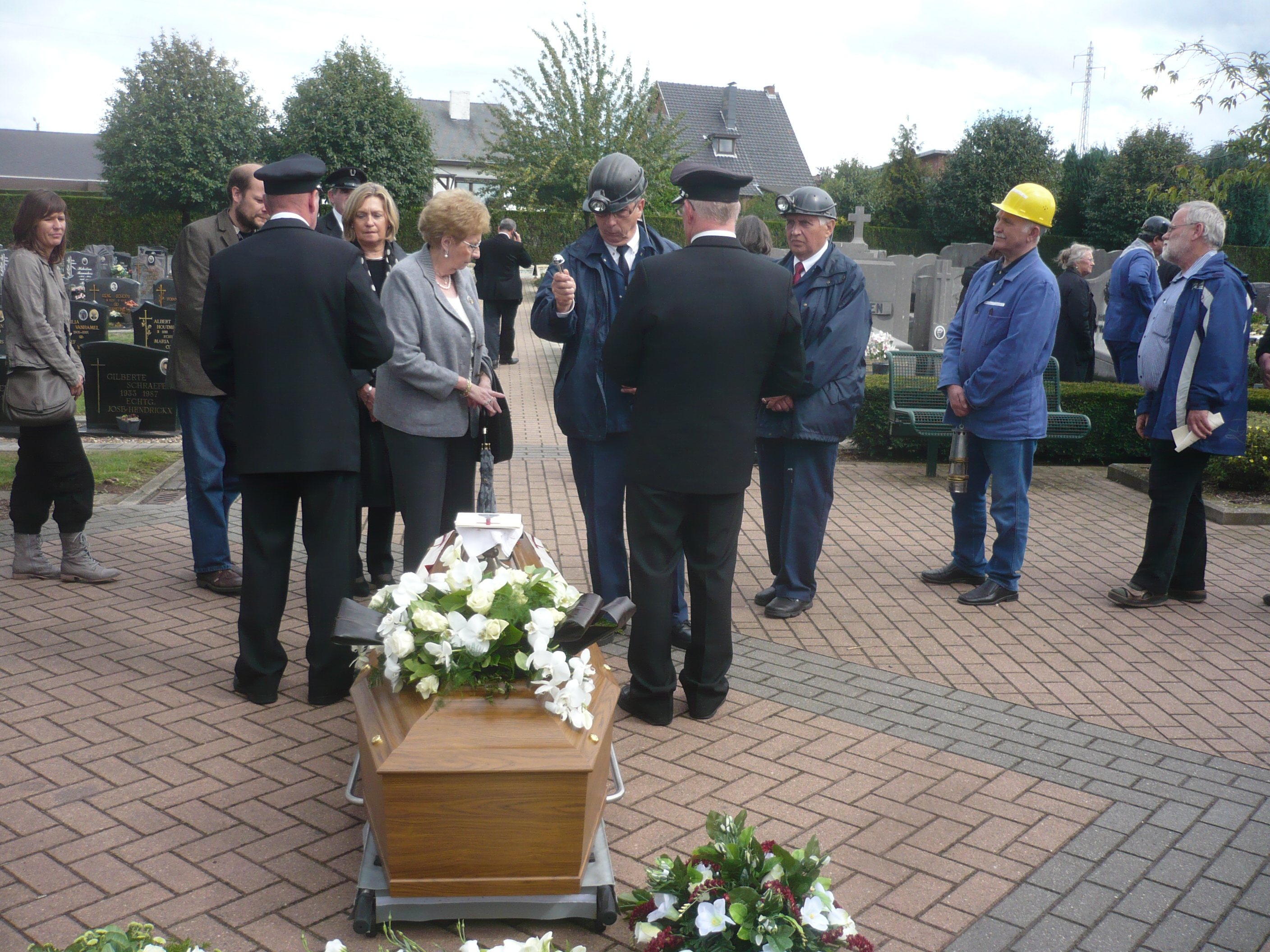 Zolder (Belgium), Ex-miners give final salute to Jef Ulburghs